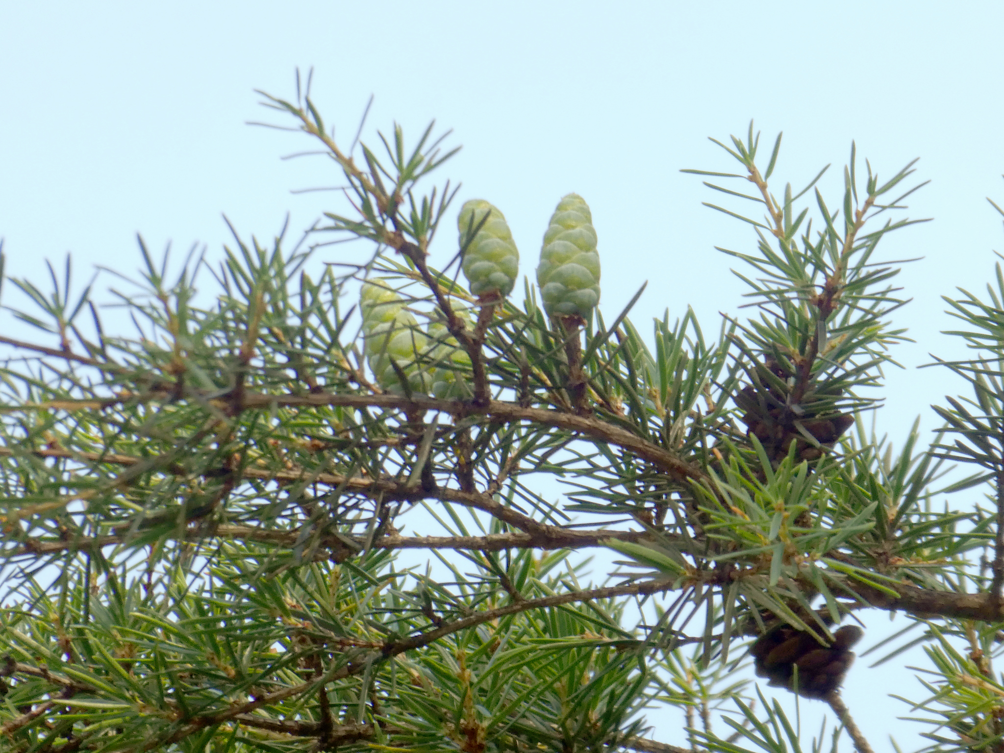 Nothotsuga longibracteata foliage and cones, Guangdong, China